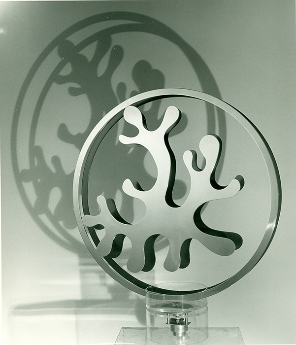 Phyllis Mark, "Bacchanal." Table-top sculpture on motorized base. Polished anodized aluminum. 24".